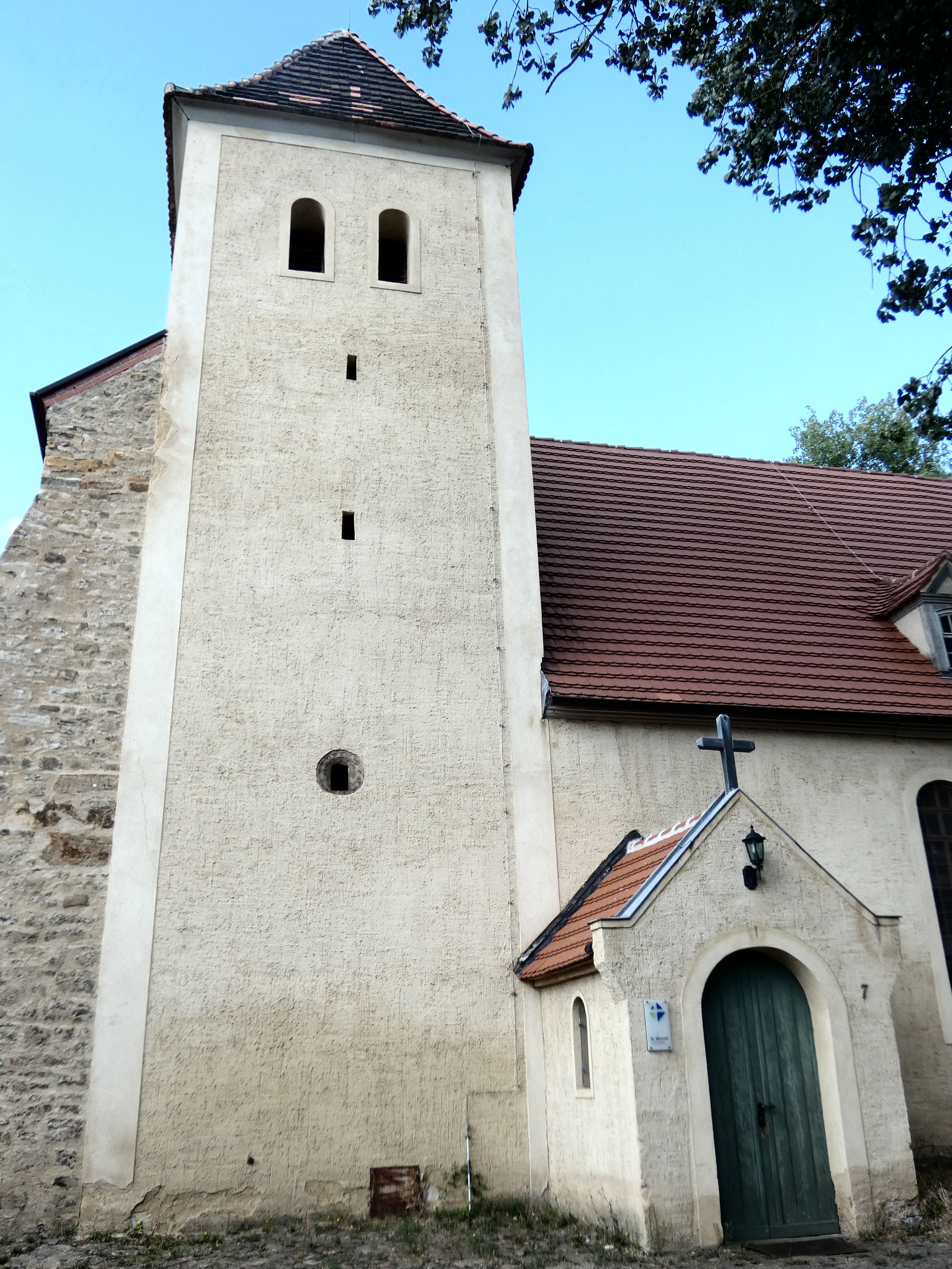 St. Wenceslaus Church in Radewell (Halle/Saale, Saxony-Anhalt), southern side of the tower